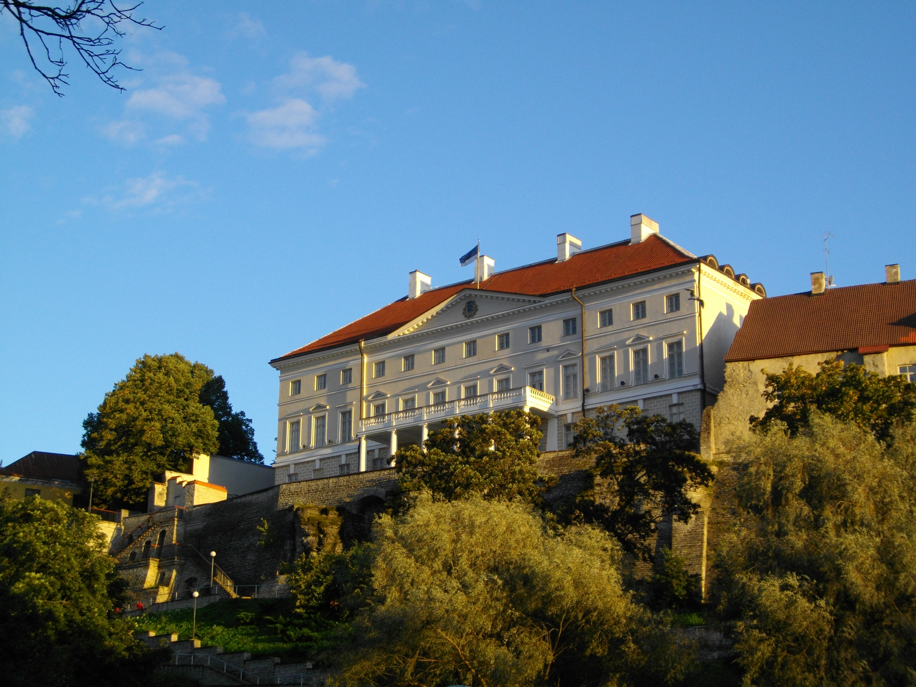 Stenbock house as seen from Schnelli pond, Tallinn. Estonia